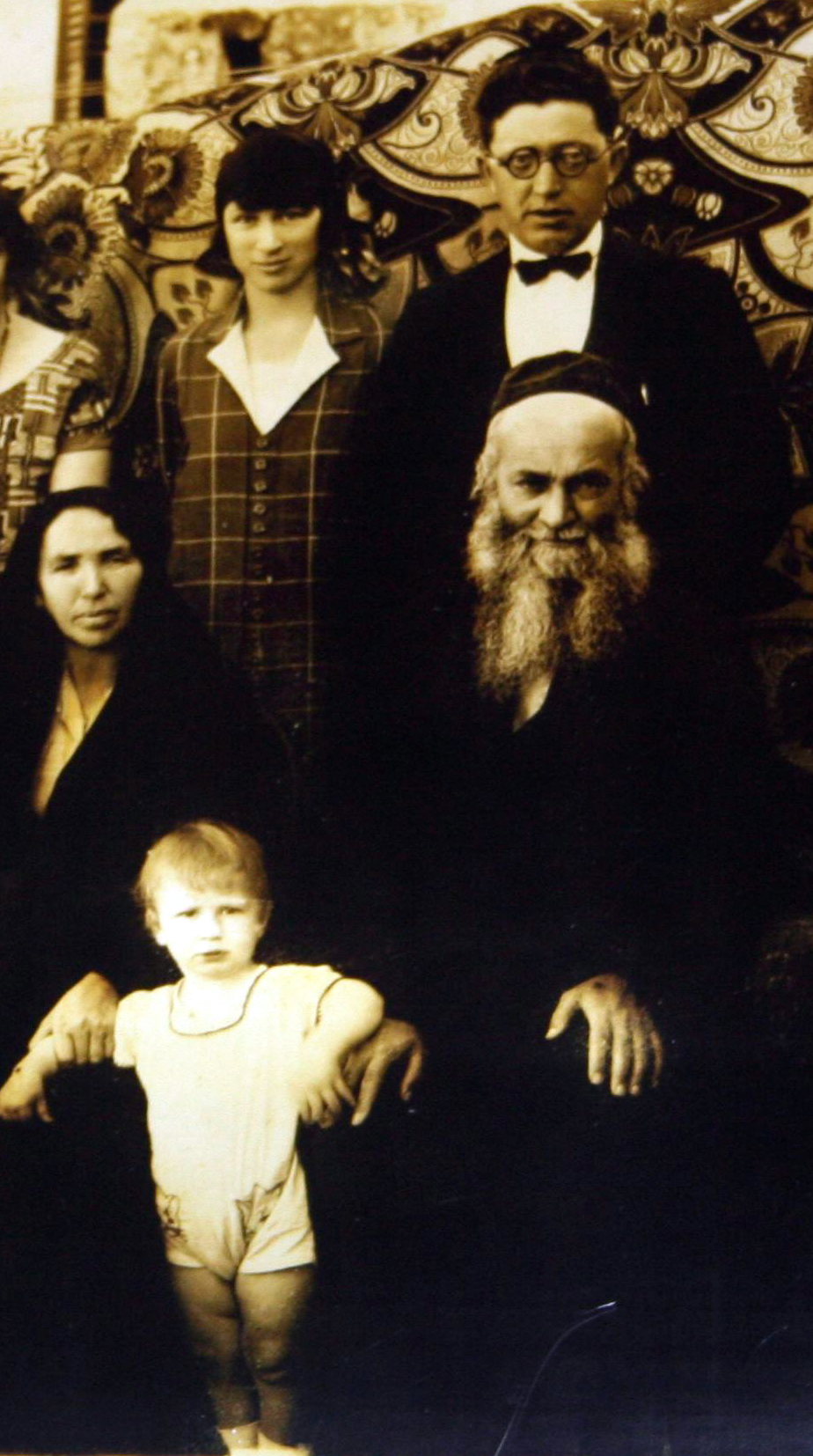 1929 Hebron massacreThird row standing, Eliezer Dan Slonim and his wife Chana Sara. Seated, Chana Sara's parents, Rabbi Avraham Yaakov HaCohen Orlansky and his wife Yenta. Between them, Eliezer Dan and Chana Sara's son.